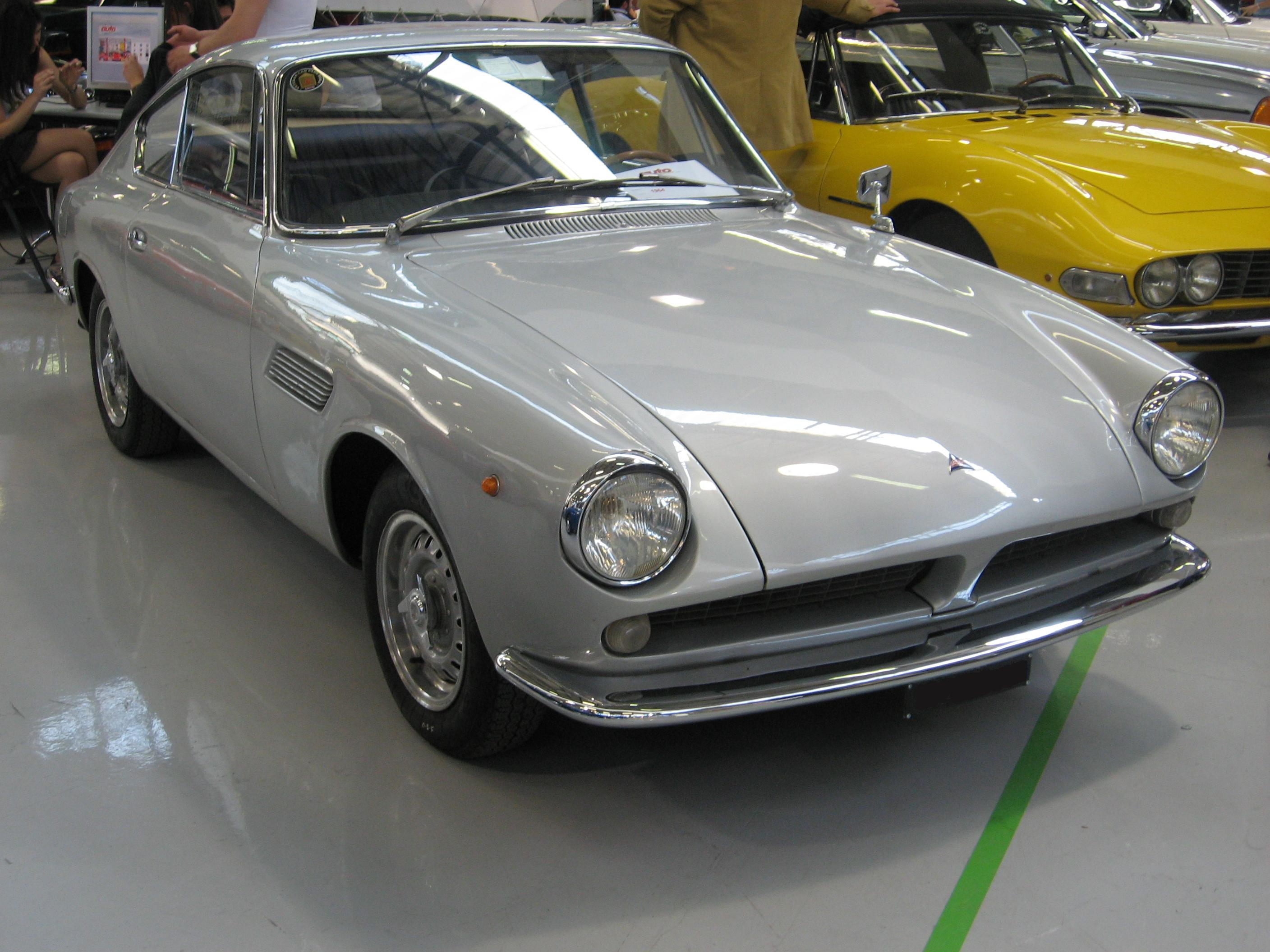 Subject: ASA 1000 GT Coupé Author: Luc106 Date: 18th March 2007 City/Country: Forlì (Italy) Event: Old Time Show I release all rights in the public domain.